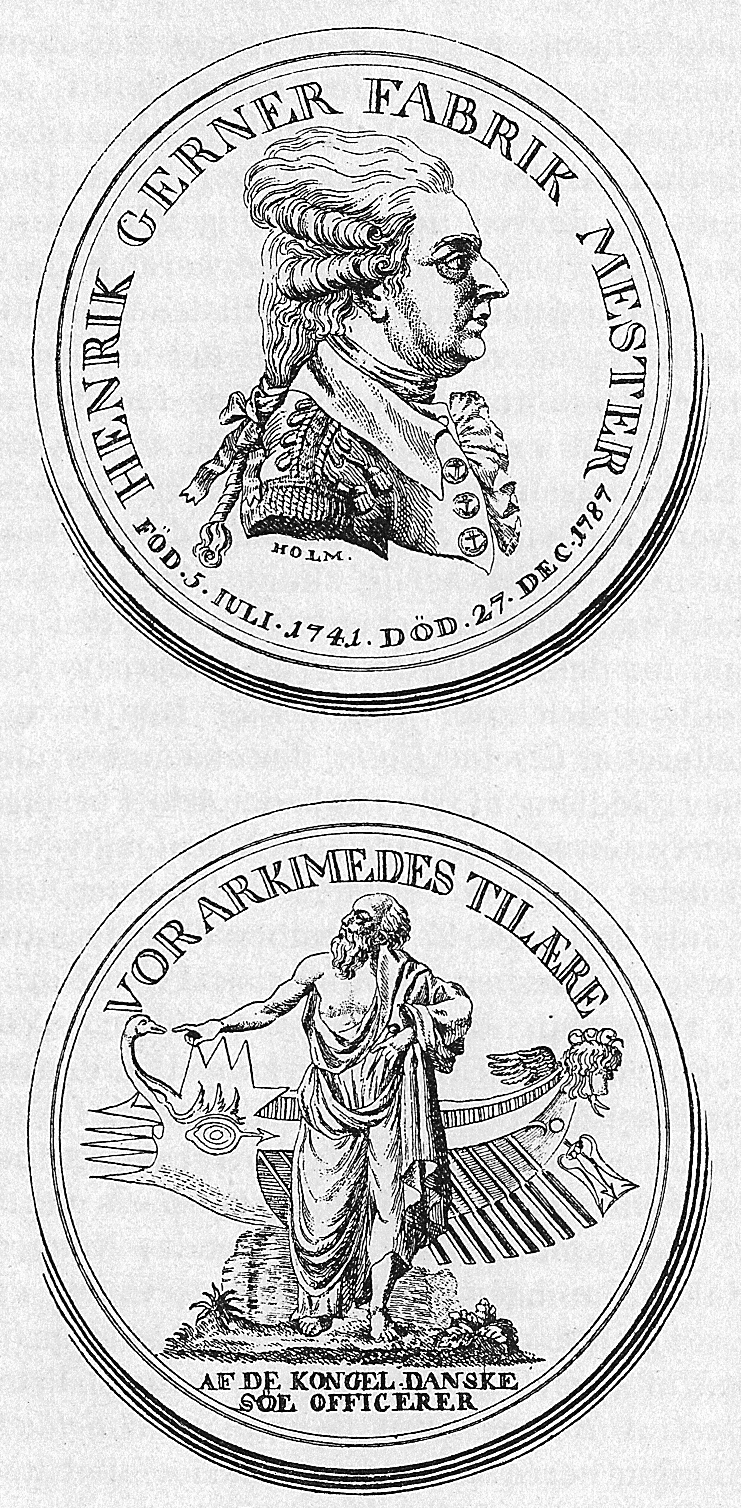 Henrik Gerner (1741-1787) medaljen. Efter forlæg af Peter Frederik Suhm. Tegnet af Jesper Johansen Holm (1748-1828). Uddeles til søofficerer der har excelleret i deres fag. Medal to commemorate the Danish shipbuilder Henrik Gerner. It is awarded the top students at the Danish Naval Academy, especially those who excel in mathematics.